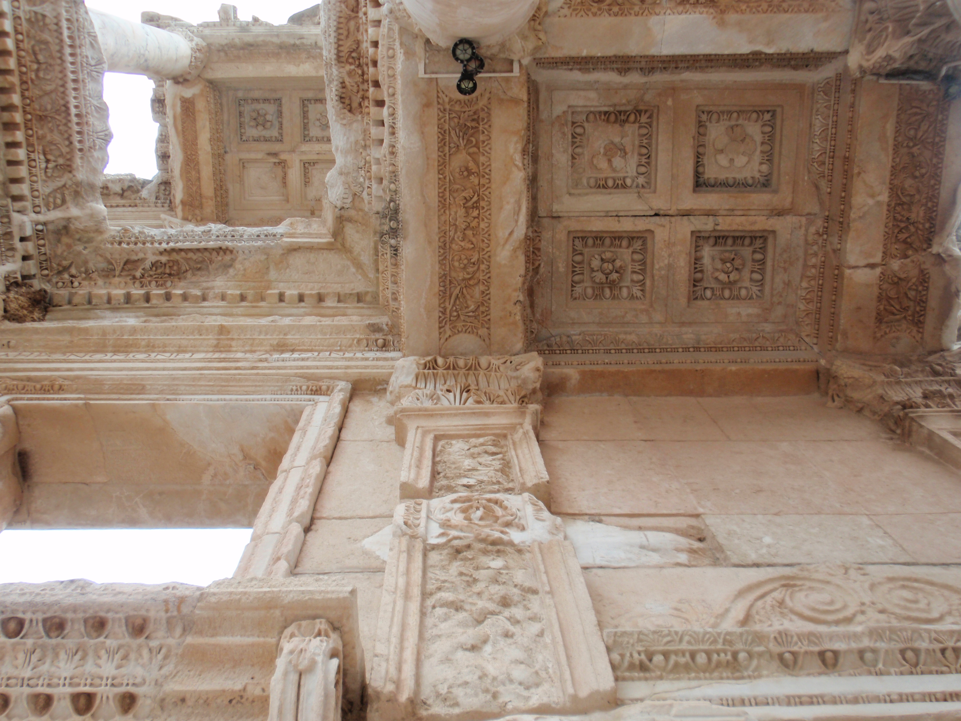 Celsus Library, Ephesos